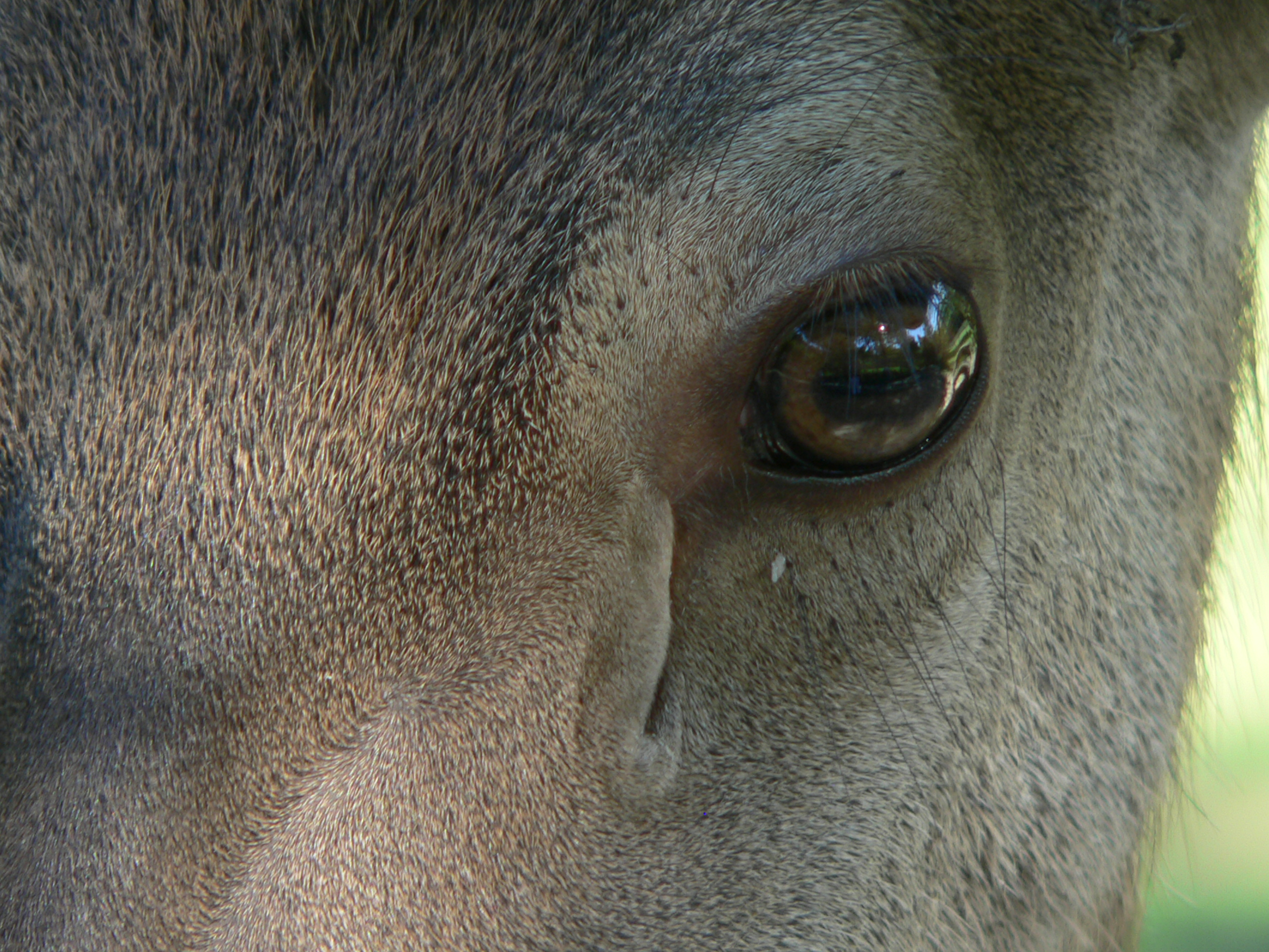 Cervus elaphus, male second year of life, eye